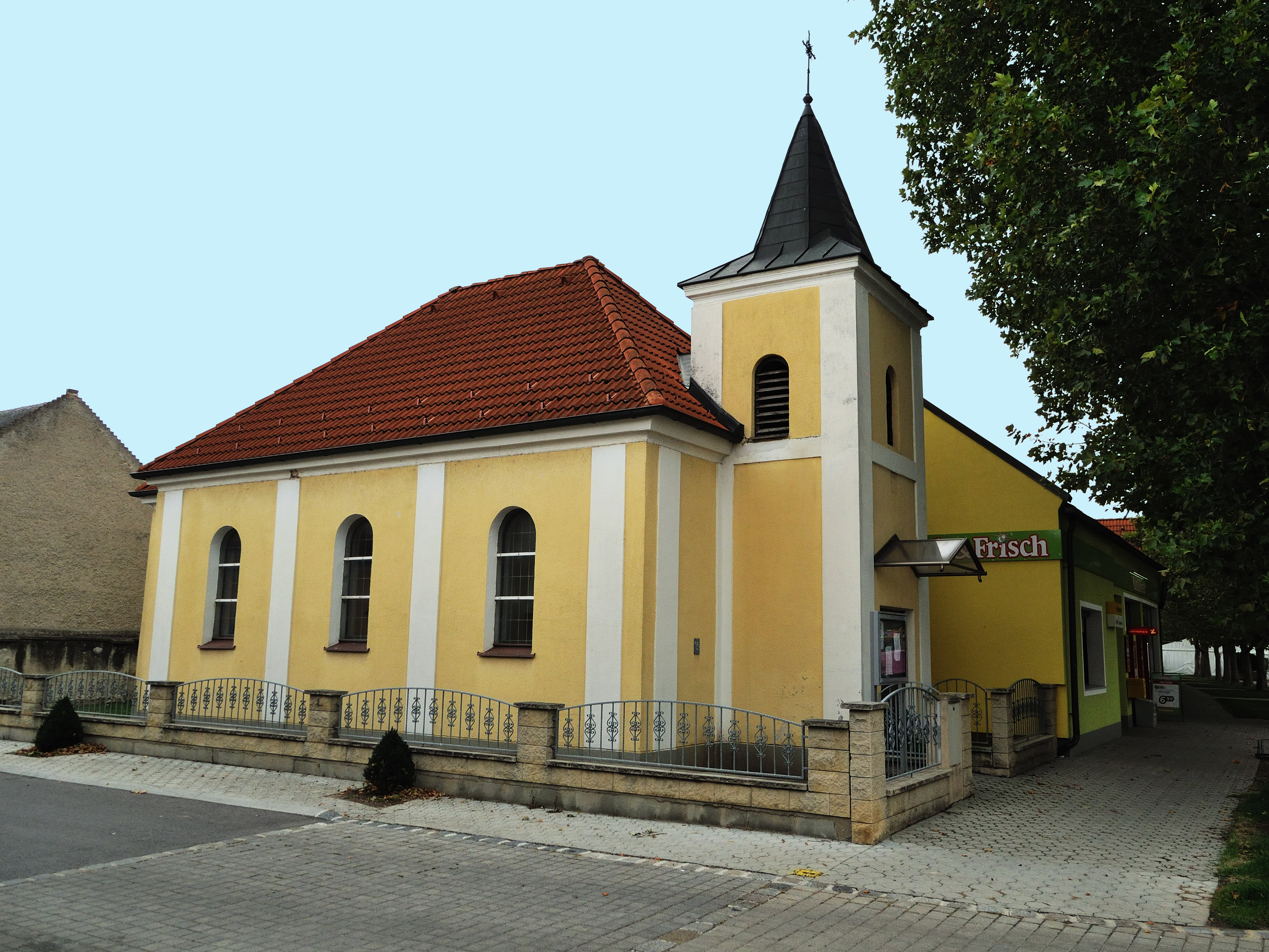 Protestant succursal church in Tadten, Burgenland, Austria